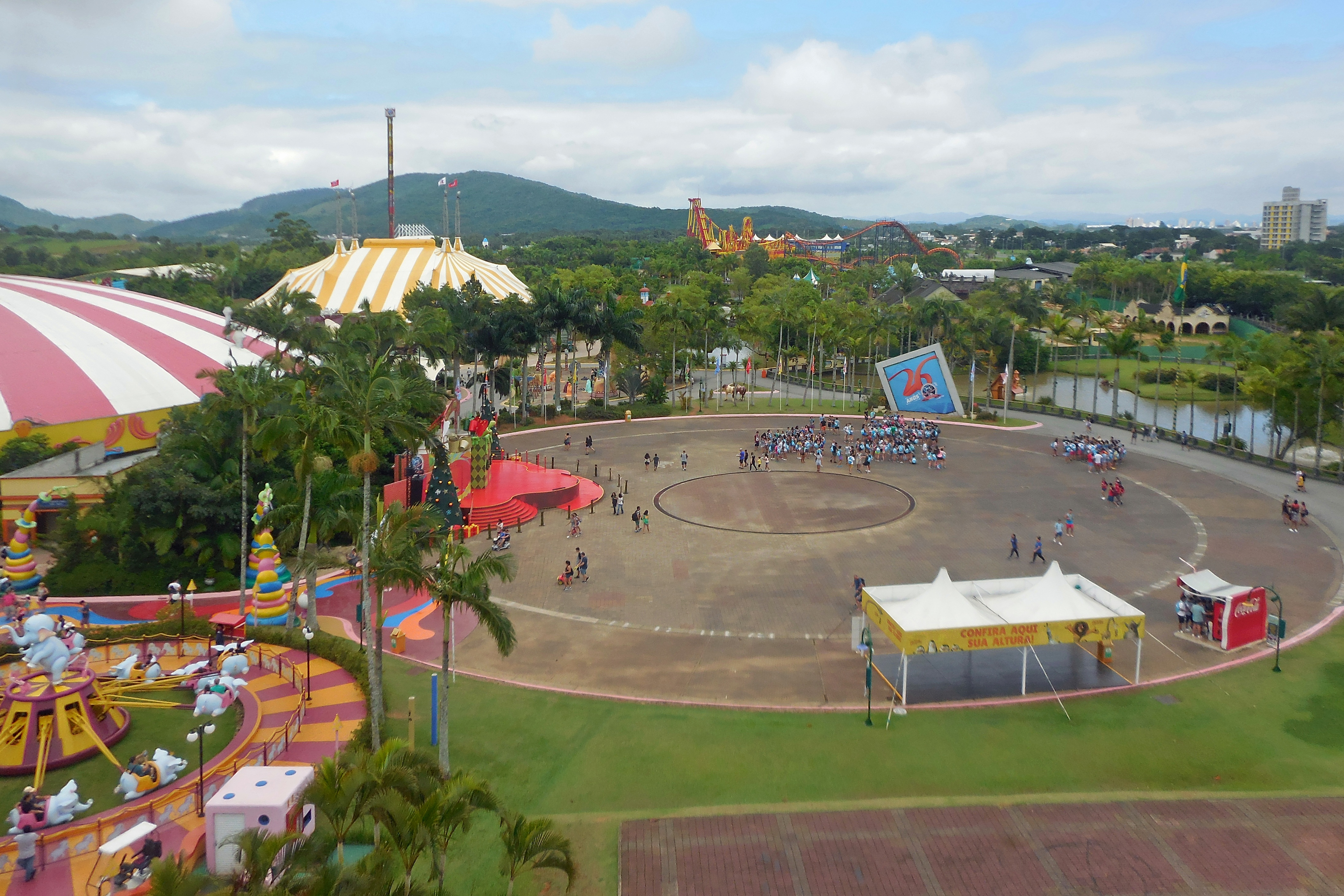 The Beto Carrero World seen from of the ferris wheel, in Penha, Santa Catarina, Brazil.